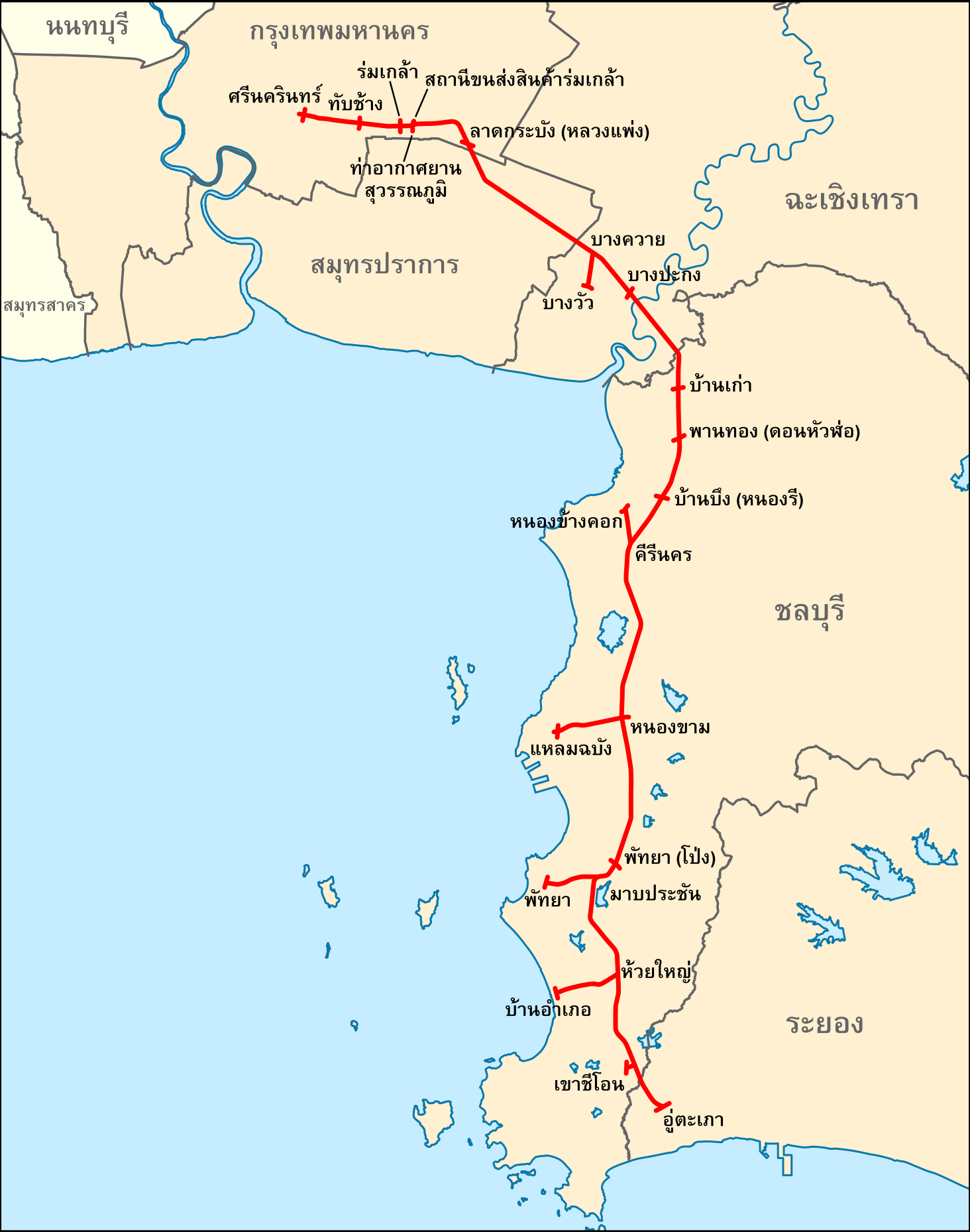 Courses of Motorway Route 7 with its spurs and interchanges in the central and eastern regions of Thailand.